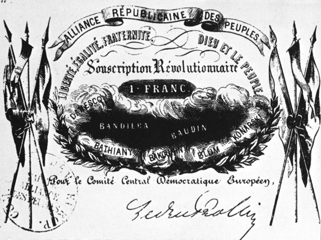 A voucher issued by a revolutionary committee in France 1848. It bears the names of Lajos Batthyány, Mikhail Bakunin, Robert Blum, Szymon Konarski, the Bandiera Brothers, Jean-Baptiste Baudin and Danesco (?)